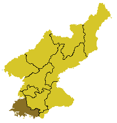 Map of South Hwanghae province, North Korea